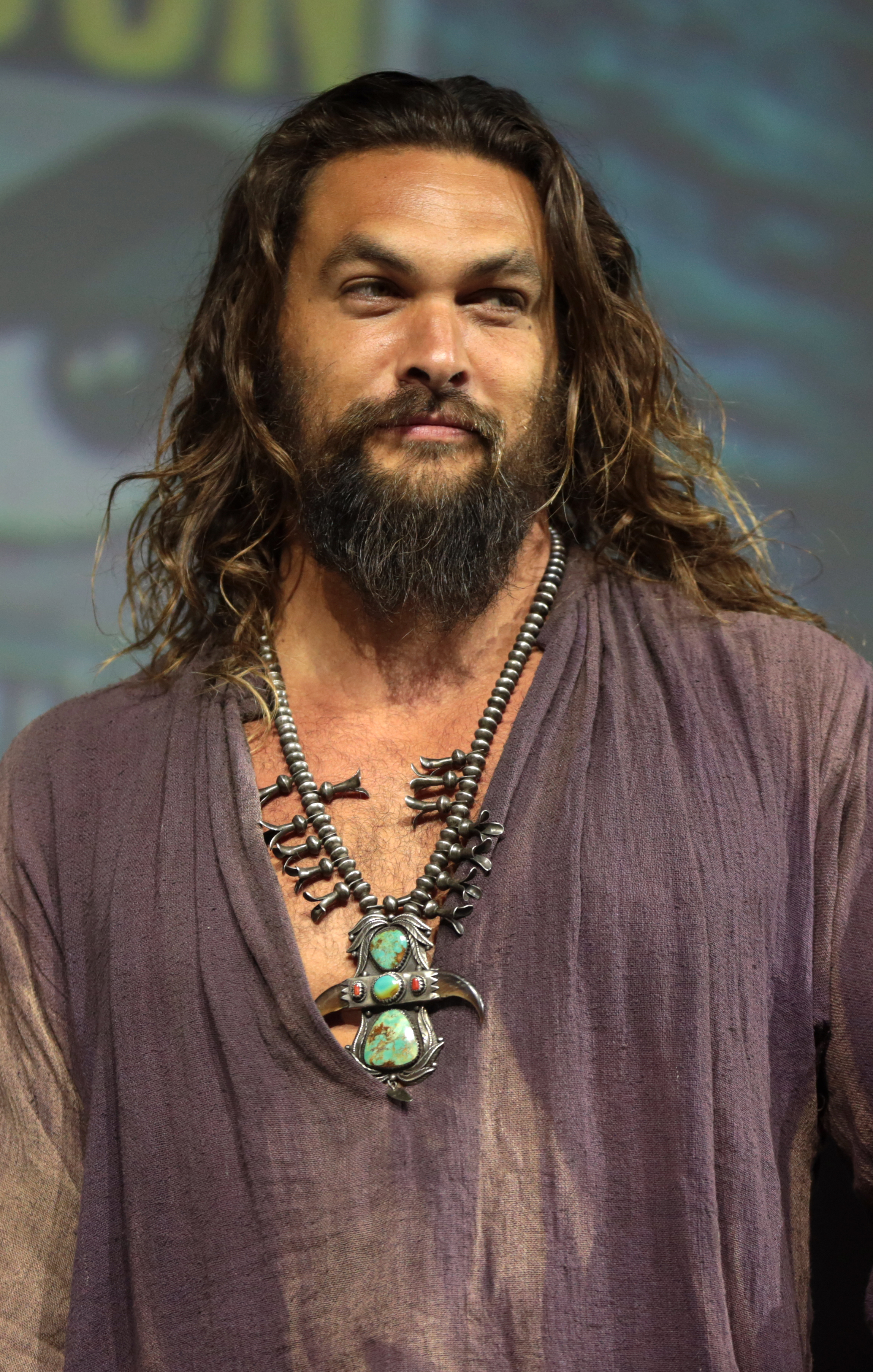 Jason Momoa speaking at the 2018 San Diego Comic-Con International in San Diego, California.